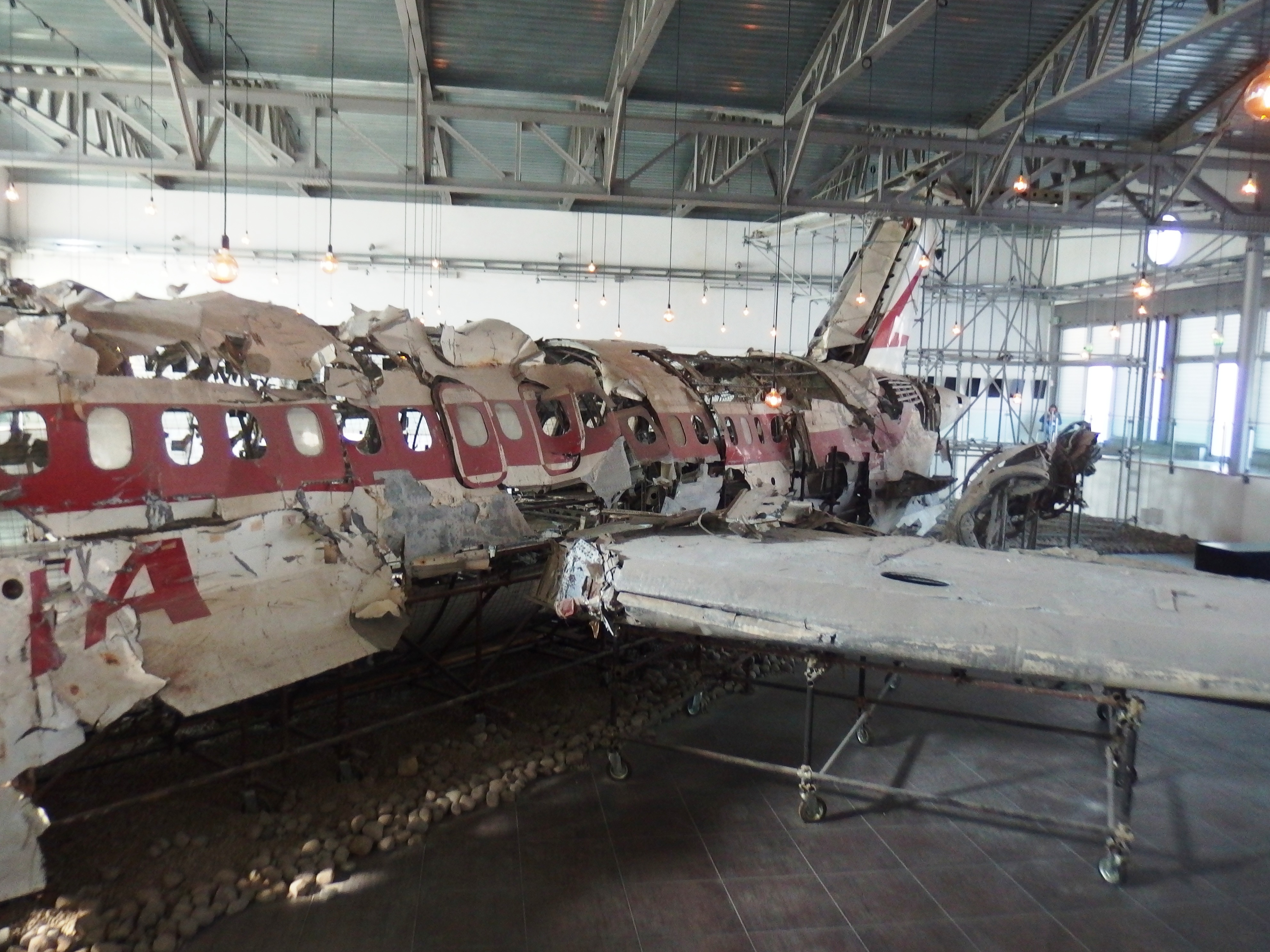 Bologna, Italy. Museo per la Memoria di Ustica, memeorial of a palne crash of 1980.